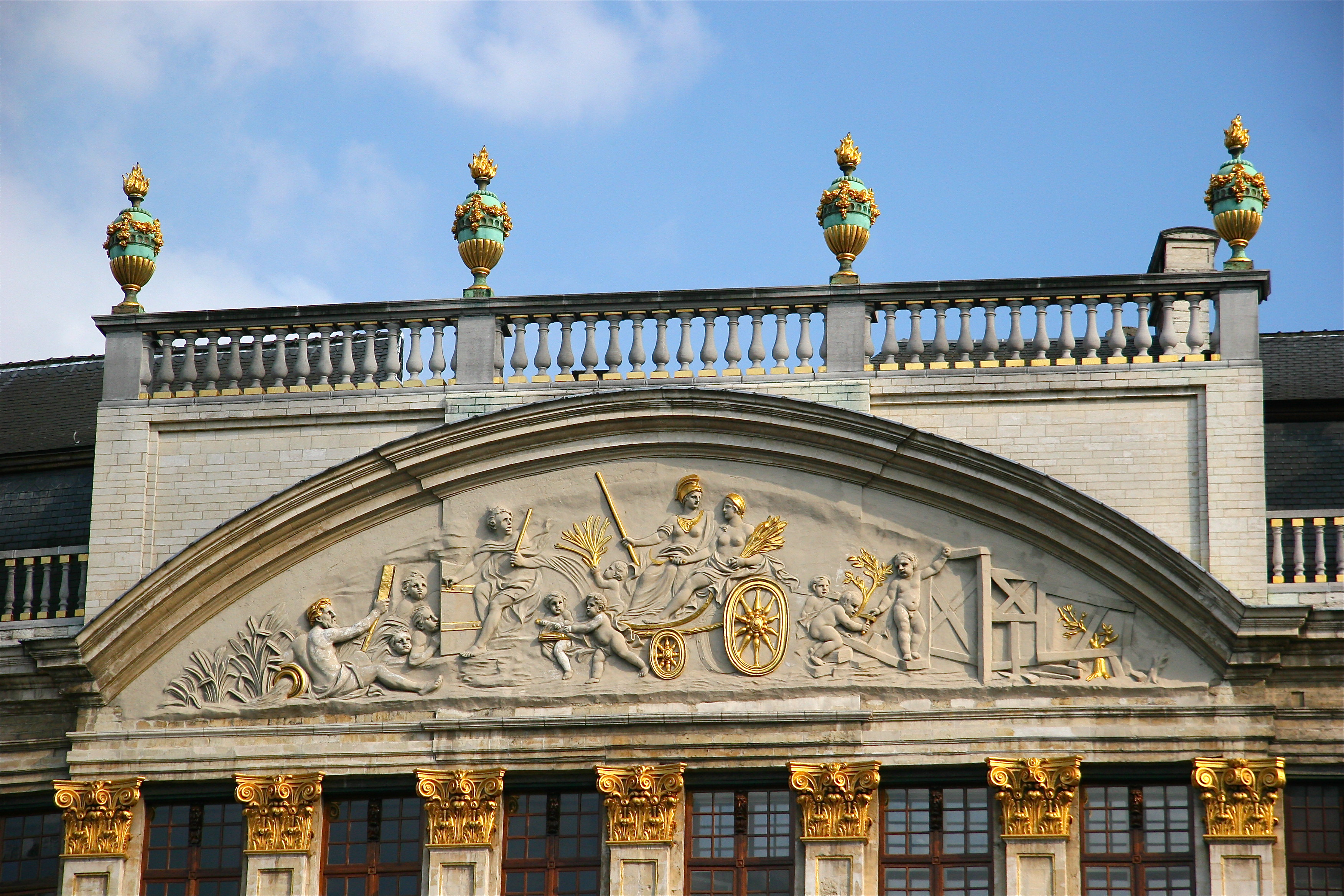 Detail from the facade of the Maison des Ducs de Brabant, Grand Place, Brussels, Belgium